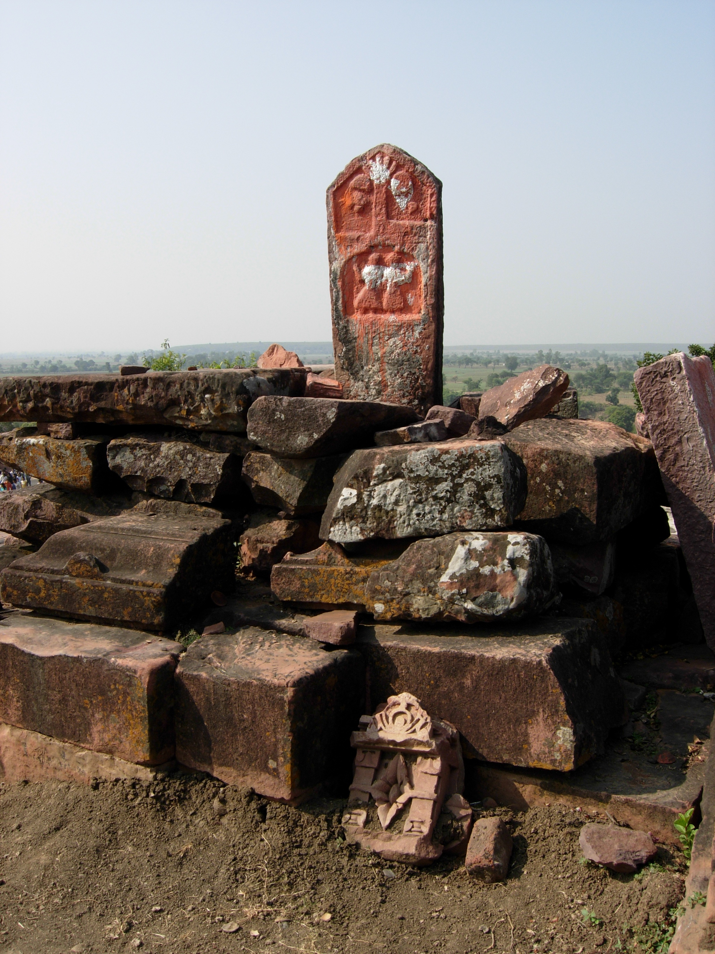 Bhojpur, Madhya Pradesh, India. Sati pillar at the temple